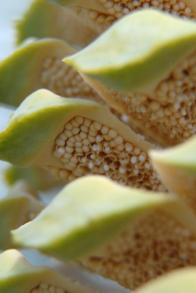 Encephalartos villosus Microsporofyls with microsporangia in Liberec Botanical Garden